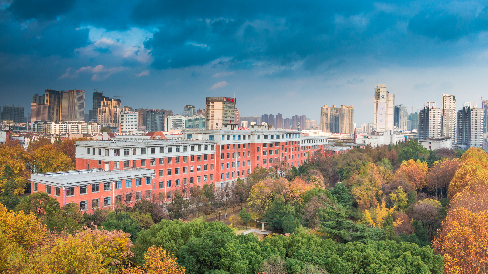 Main Teaching Building of HFUT